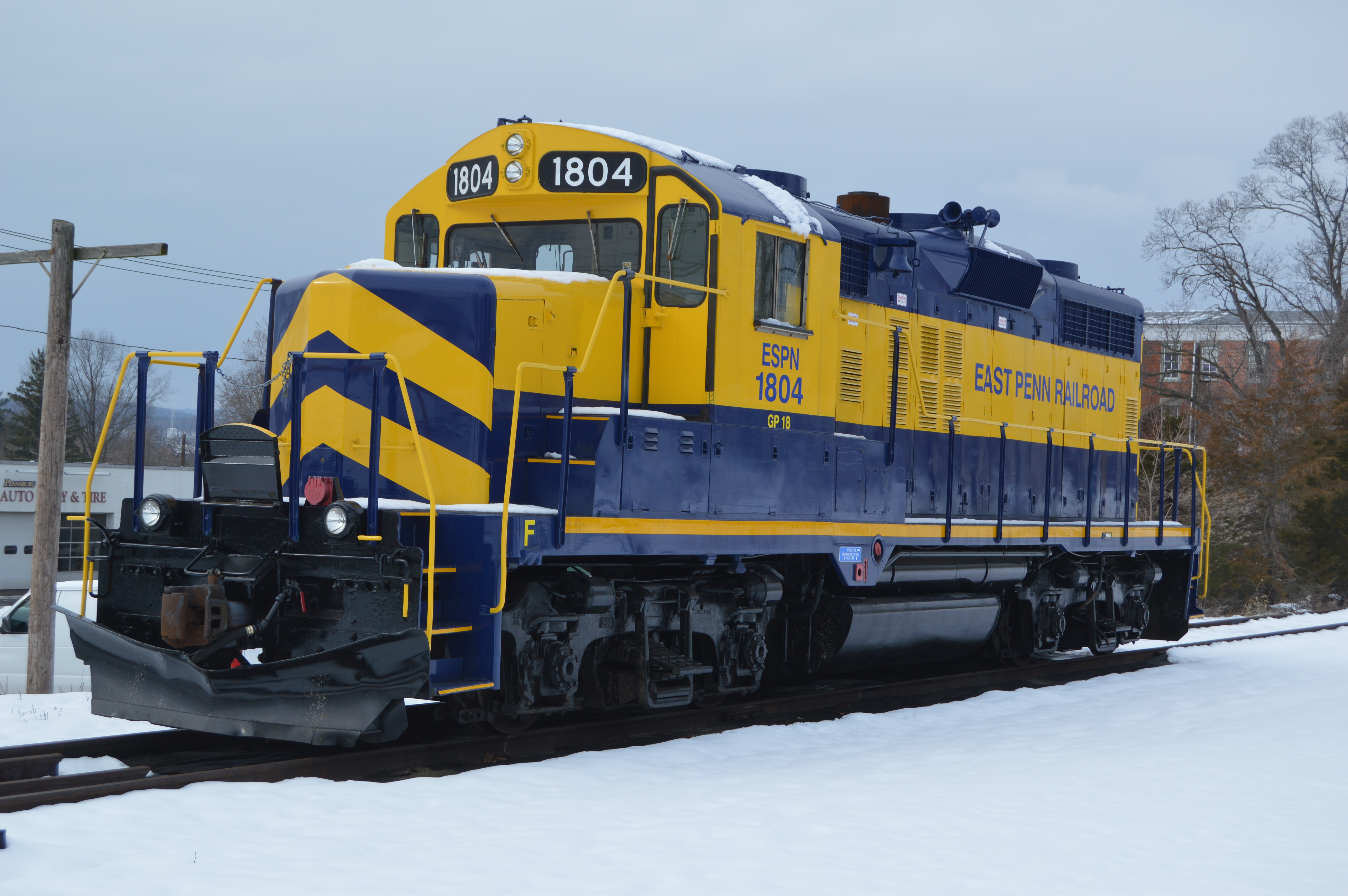 East Penn Rail Road Locomotive at the end of their short line in Pennsburg, Montgomery County, Pennsylvania. Photo by the Montgomery County Planning Commission (Thanks - these folks are great!)